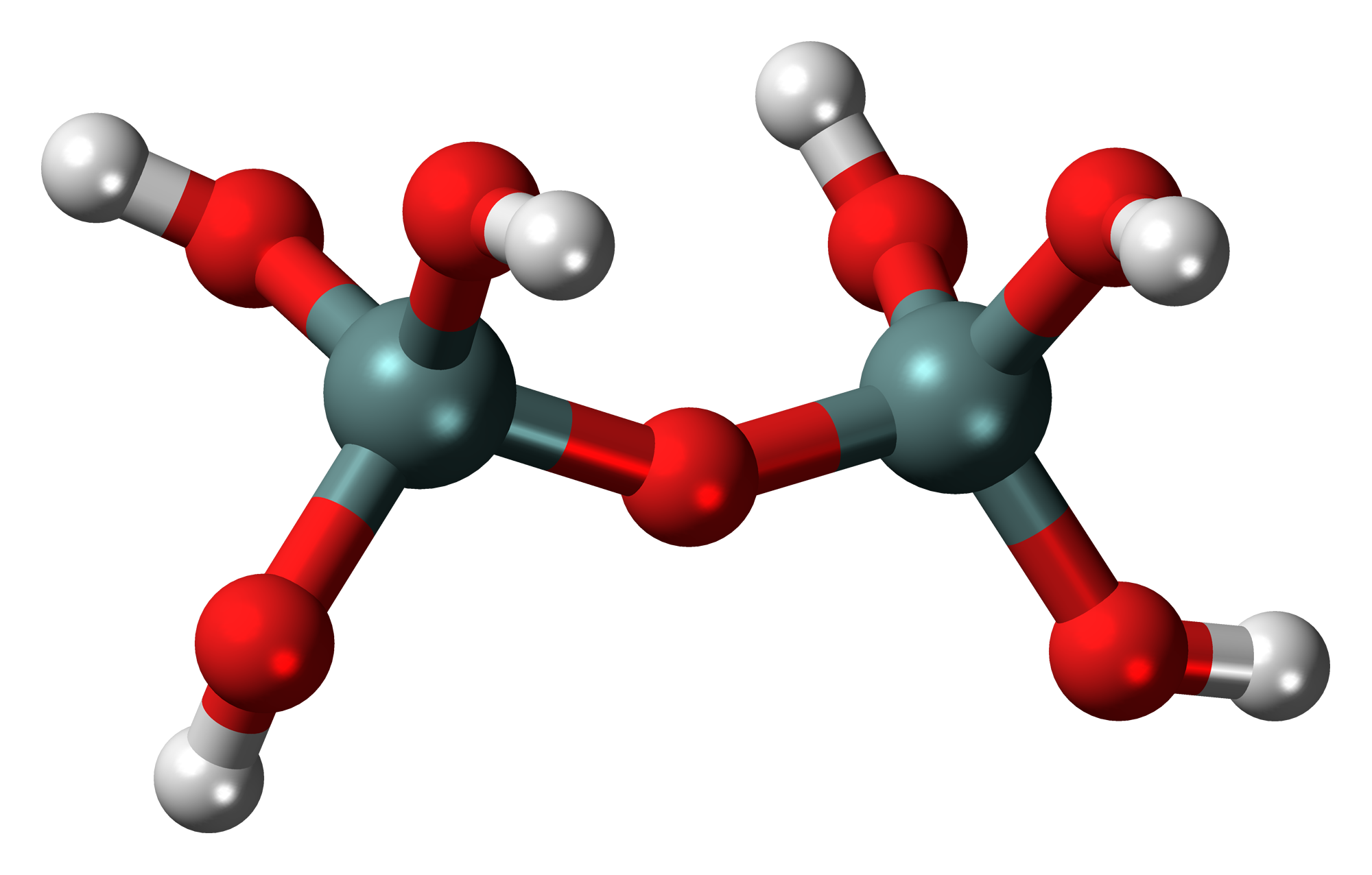 Ball-and-stick model of the pyrosilicic acid molecule, one of several silicic acids. Colour code: Hydrogen, H: white Oxygen, O: red Silicon Si: blue-grey